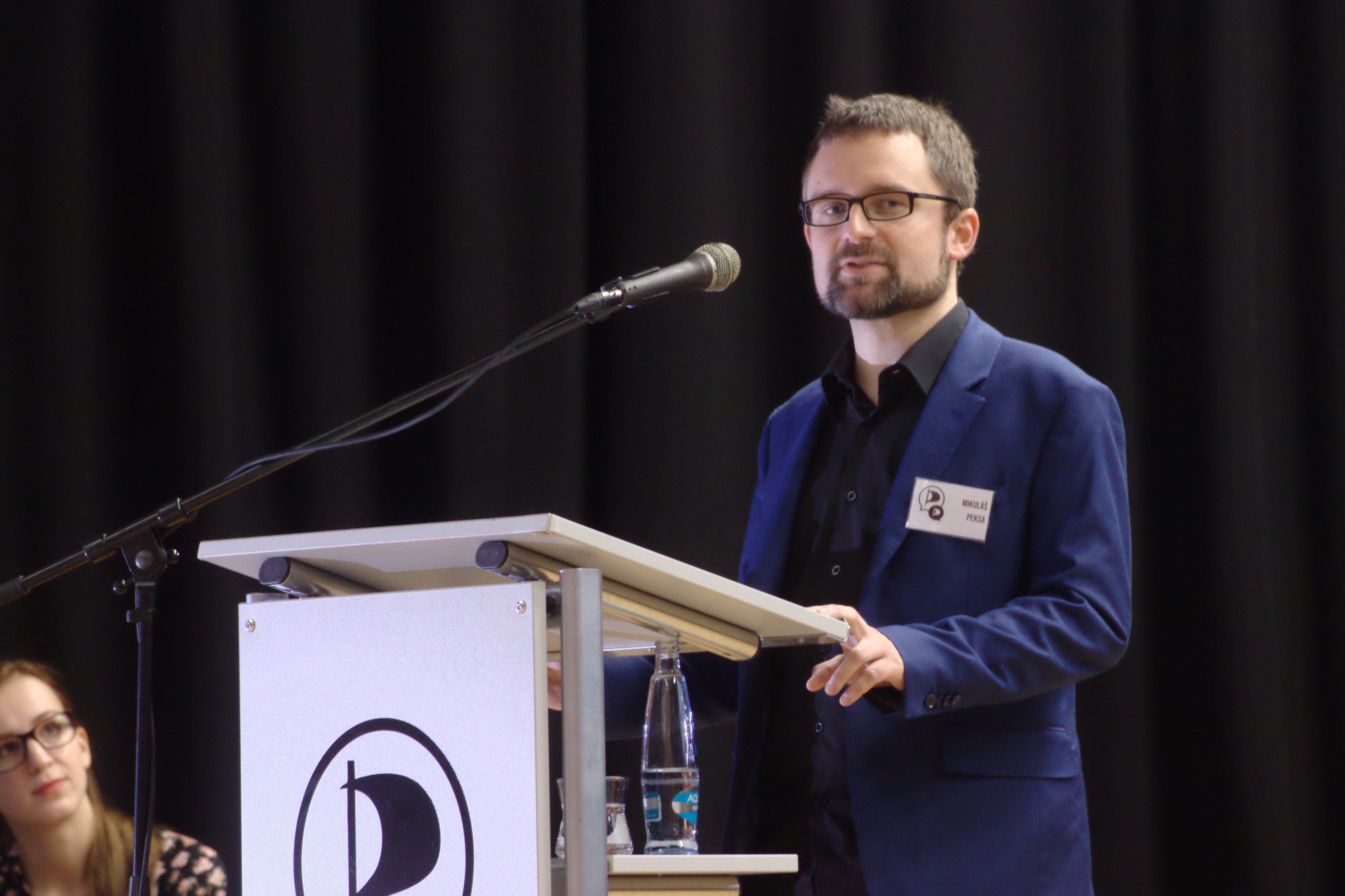 Mikuláš Peksa during the Pirate Party General Assembly in January 2019, Tábor CZ Personality rights warningAlthough this work is freely licensed or in the public domain, the person(s) shown may have rights that legally restrict certain re-uses unless those depicted consent to such uses. In these cases, a model release or other evidence of consent could protect you from infringement claims.